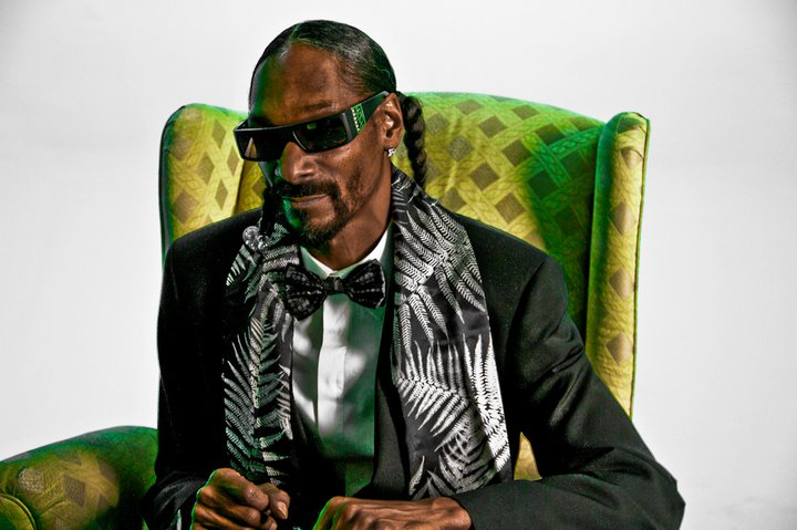 Snoop Dogg by Photographer Bob Bekian.